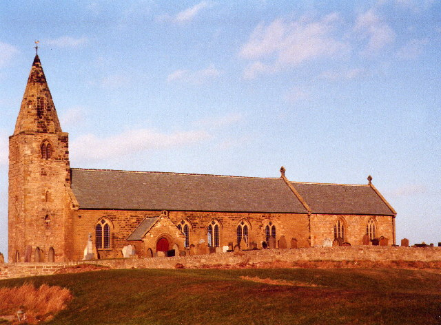 St Bartholomews church. St Bartholomews church on Newbiggin point is a distinctive landmark which can be seen for miles from North or South.